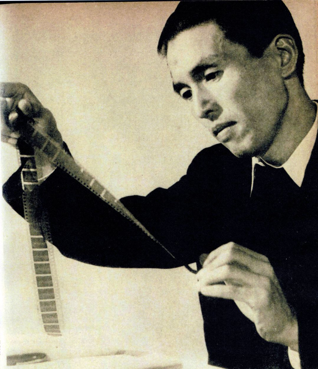 Hiroshi Kusuda